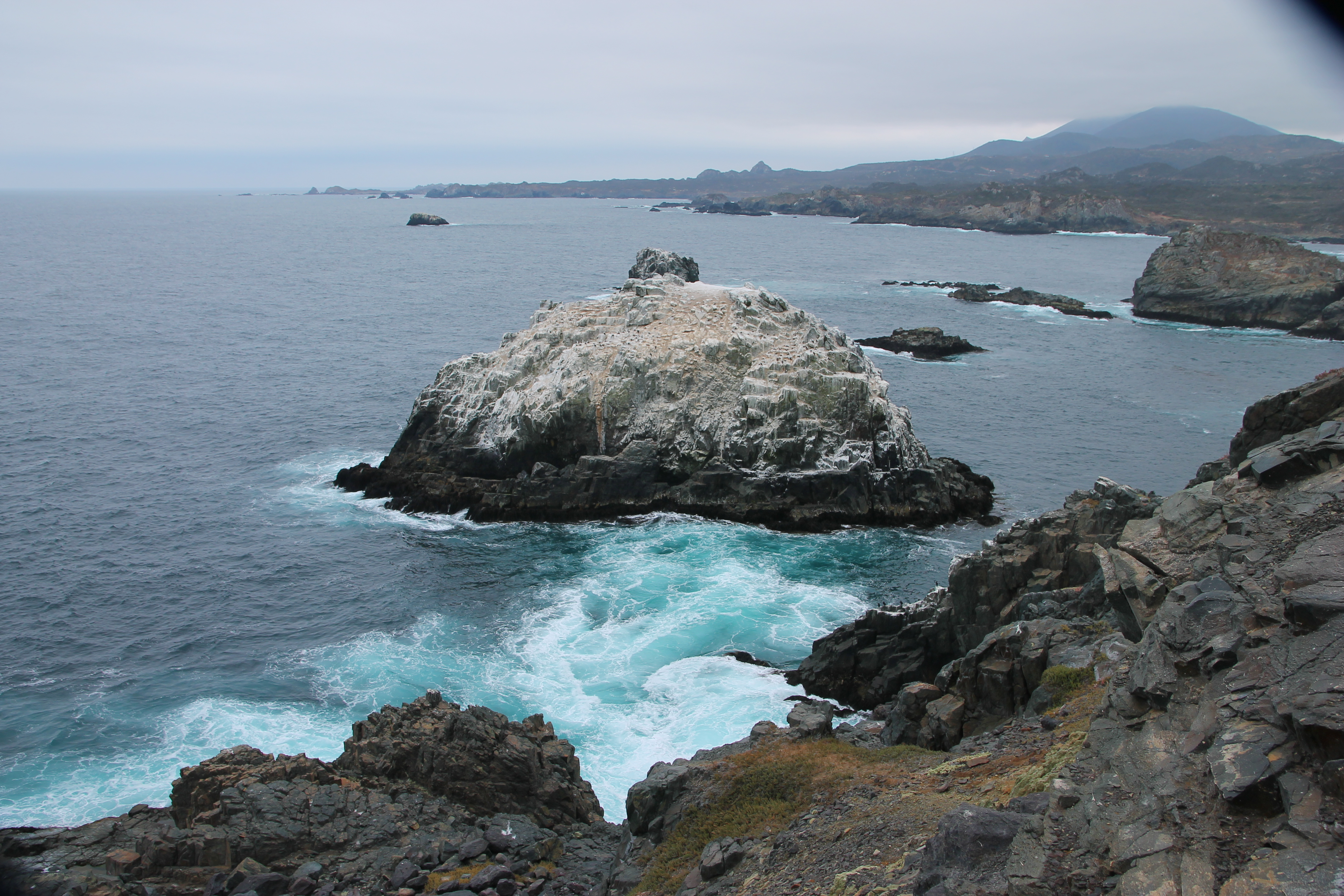 Puquén Natural reserve, Los Molles, La Ligua